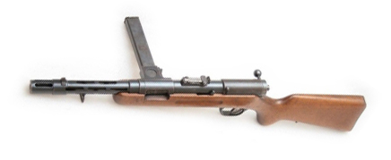 Submachine Gun Bergmann (Bergmann-Maschinen-Pistole, or abbreviated as BMP) was developed by the son of the famous gun manufacturer Theodore Bergman (Theodor Bergmann) - Emil. The first submachine gun Bergman appeared in 1932 and had the designation BMP 32.